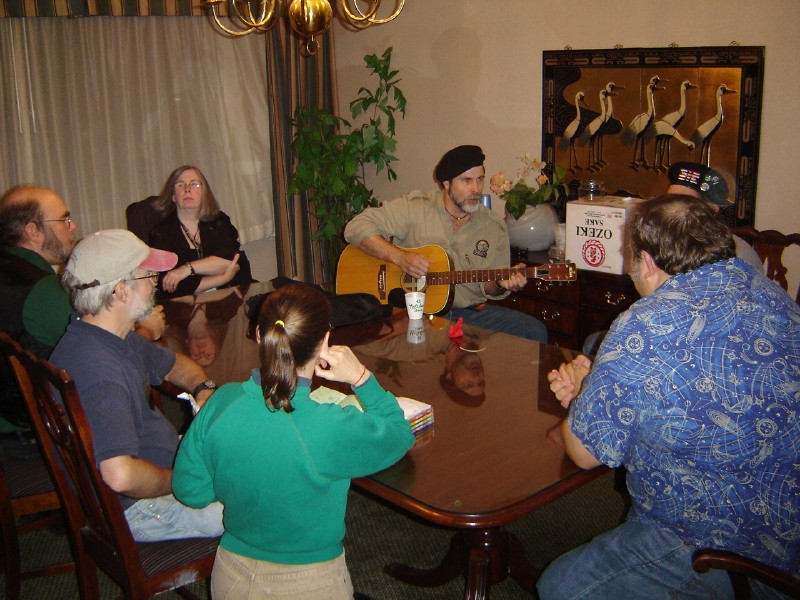 The Dorsai Irregulars filking at Conclave 30 (2005) in Lansing, Michigan.